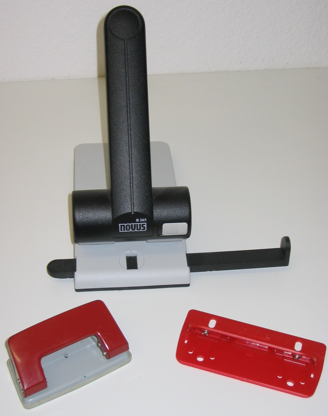 Three different sizes of perforators